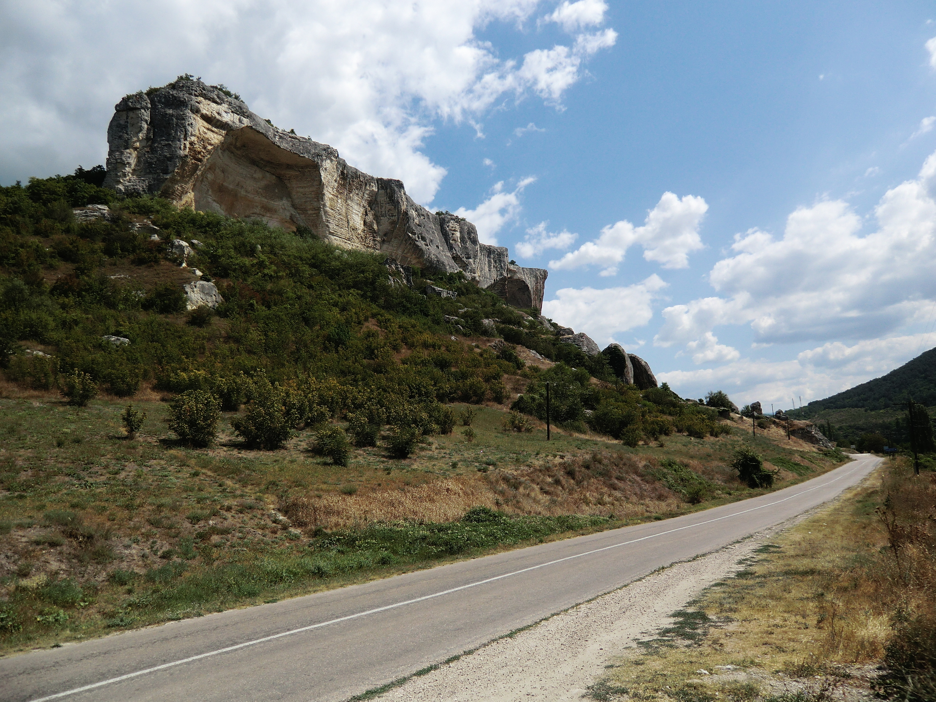 Ukraine, Crimea, Bakhchisaray region, Cave monastery Kachi-Kalon